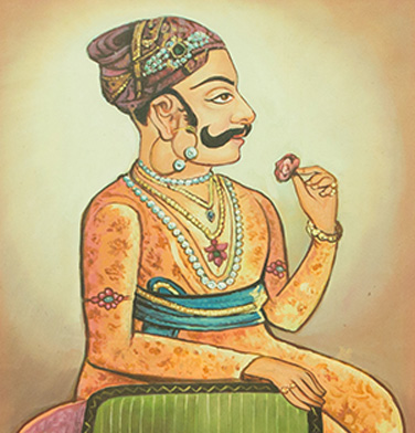 A painting of Rao Raja Rao Nandlal Ji Mandloi 'Zamindar', the founder of Indore